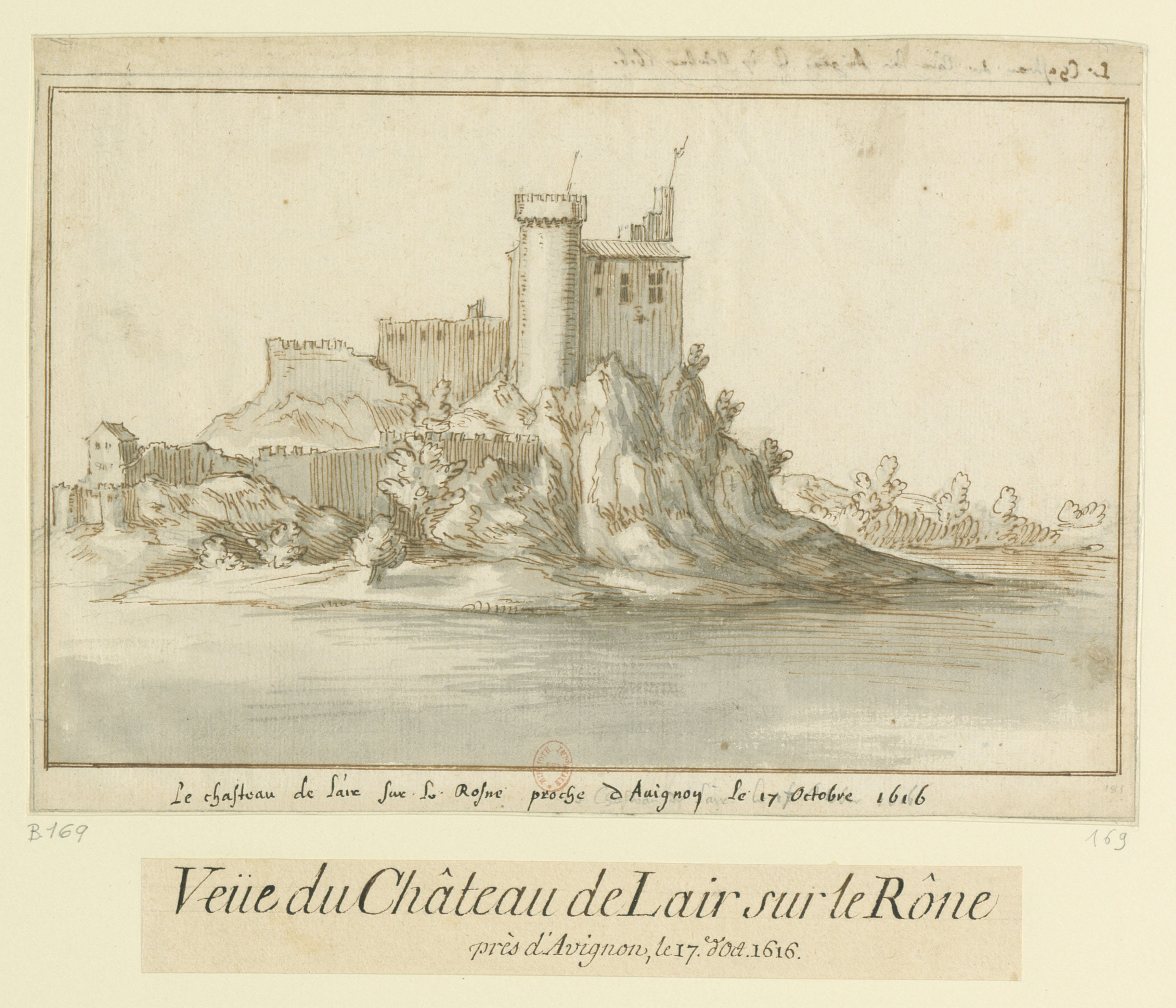 Château de l'Hers on the left bank of the Rhône within the commune of Châteauneuf-du-Pape. The castle is viewed from the southeast. Although a castle on the rocky outcrop existed by the 10th century, the surviving ruins date from no earlier than the 12th century while the round tower dates from the end of the 14th or the beginning of the 15th century.